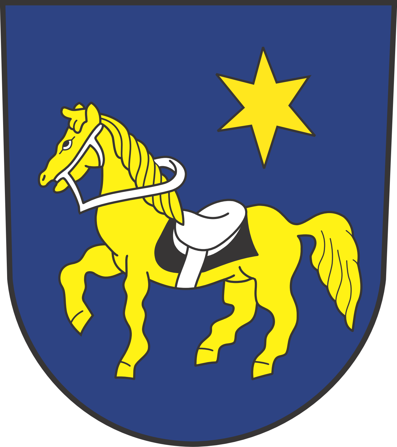 Kunčičky coat of arms